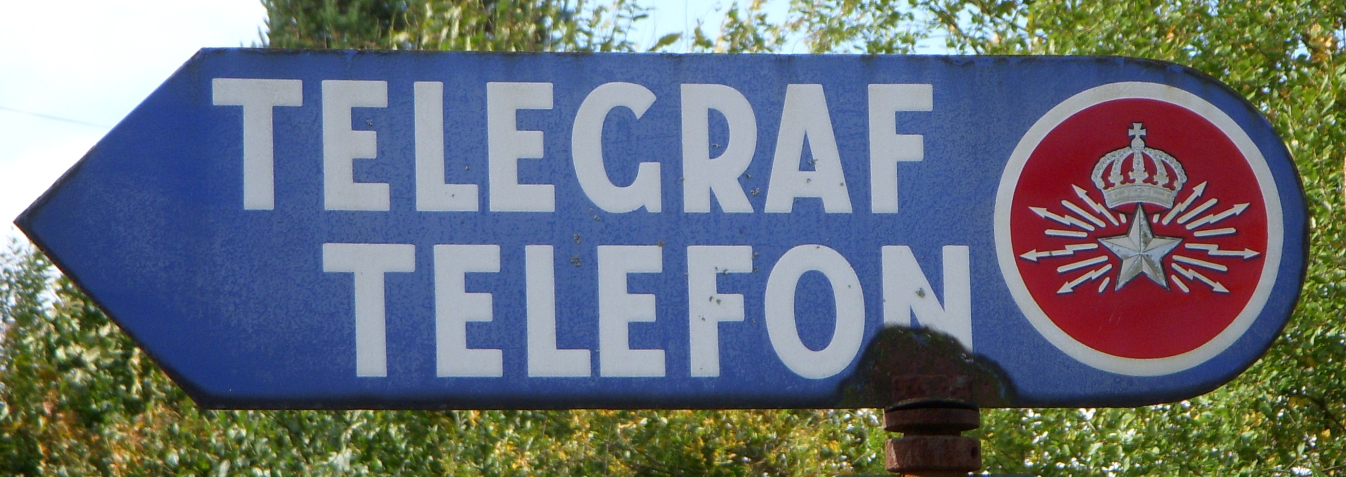 Telegrafverkets sign in Grangärde, Sweden